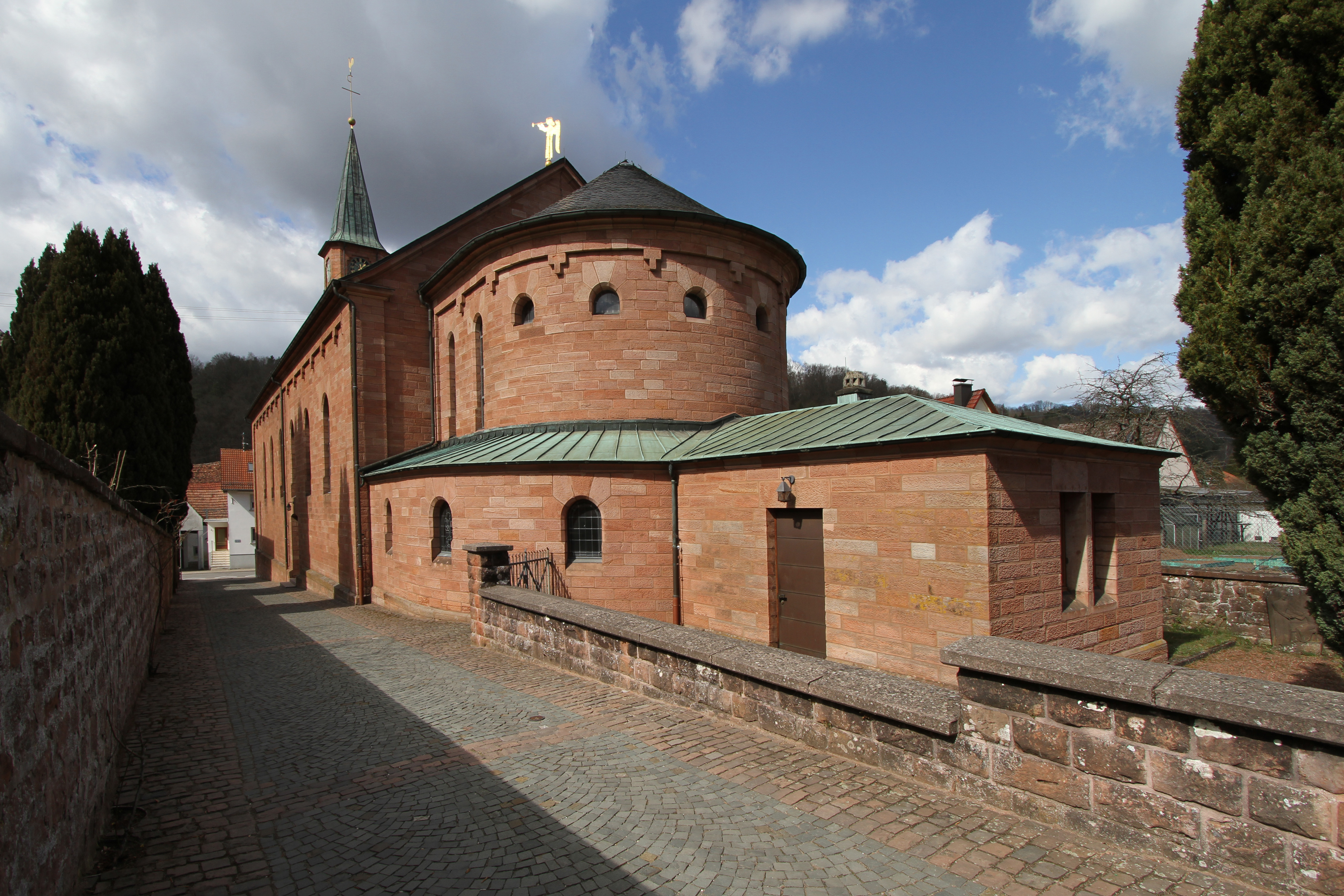 Church of Saint Pirmin in Eppenbrunn.